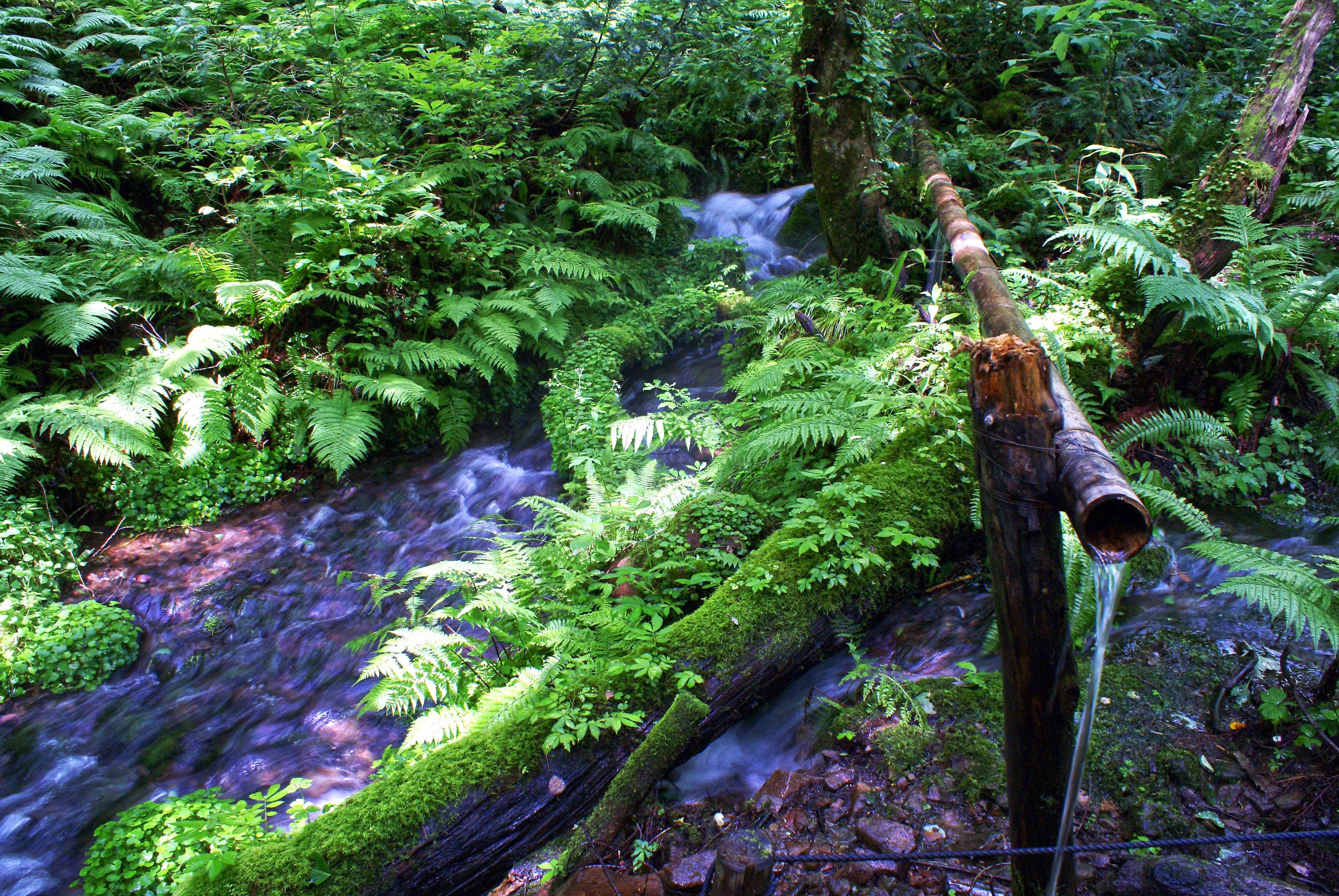 Katsura-no-sennensui water in Tajima Plateau Botanical Gardens, Torokawataira, Kami, Hyogo prefecture, Japan.